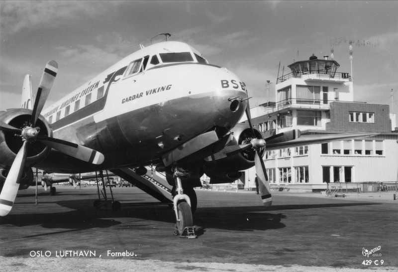 SAS plane Gardar Viking (SAAB Scandia, SE-BSB) at Oslo Airport, Fornebu